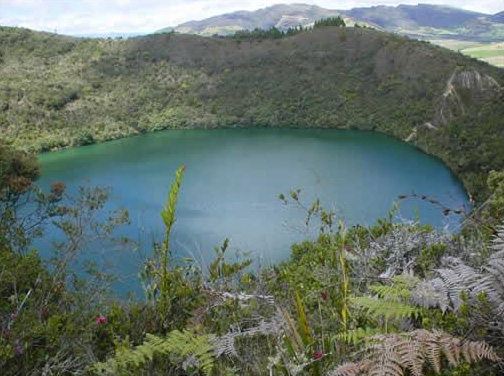 Laguna Del Guatavita